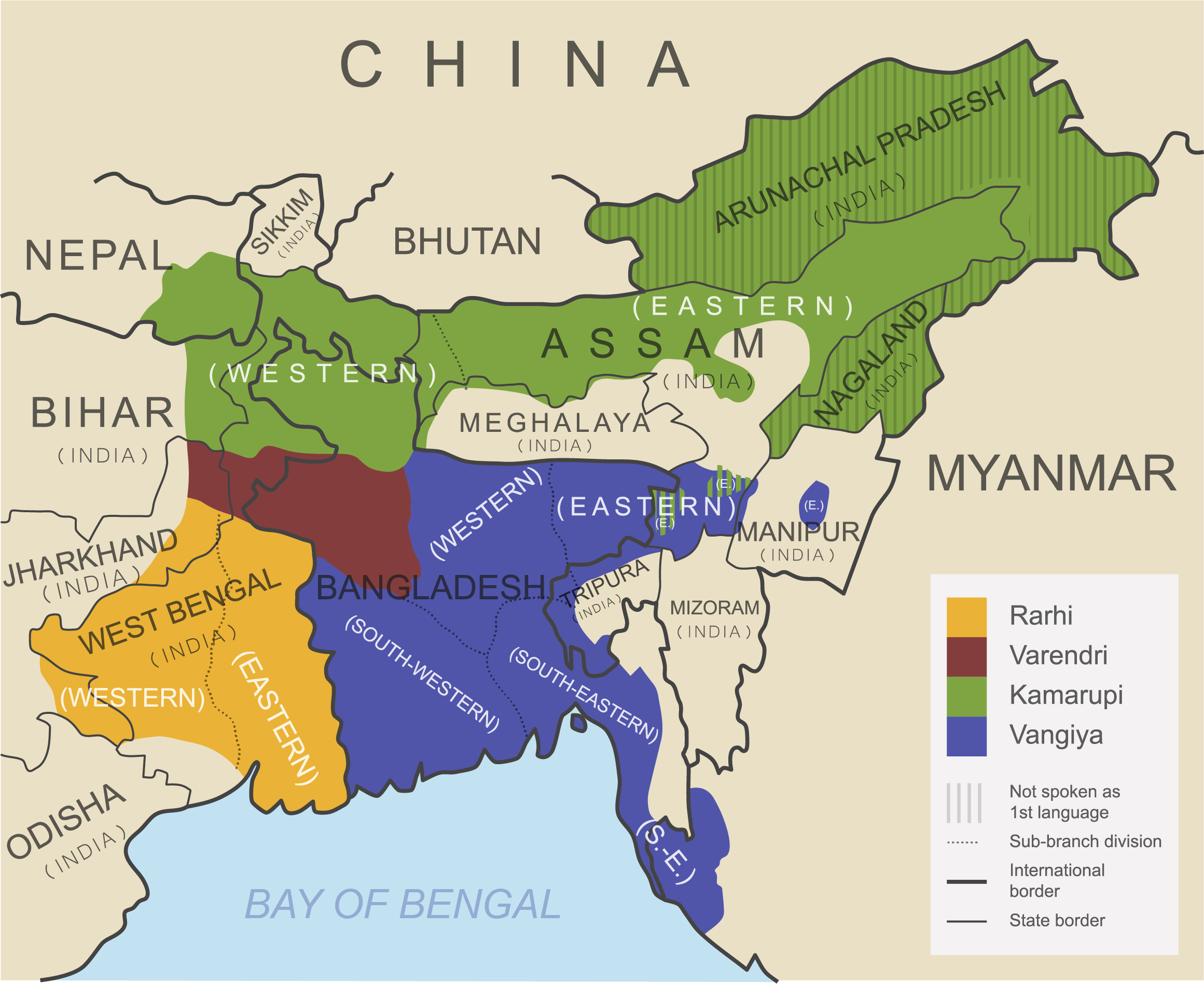 This map depicts the sub-branches of the Bengali-Assamese languages. It is based on linguistics studies by various linguists, especially Chaterjee (1926). The map is based on the historical ranges of the branches.